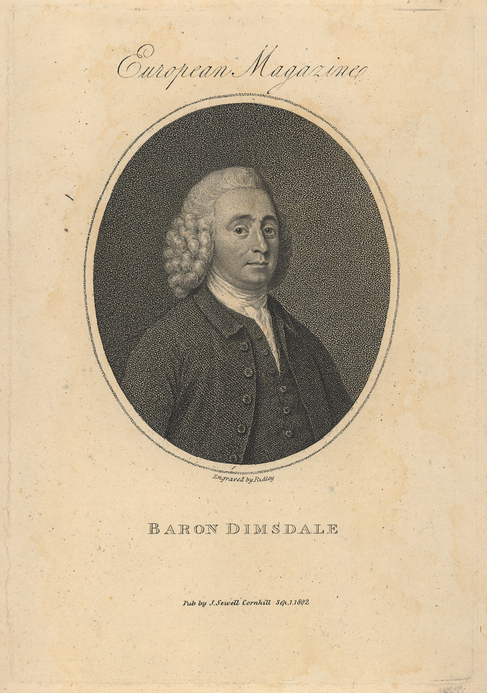 Thomas Dimsdale (1712-1800), an English physician, achieved success through variolation. He achieved some renown by inoculating Empress Catherine the Great of Russia and her 14 year old son, the Grand Duke Paul in 1768. In his 1781 account he describes the process. (Dimsdale, Thomas, Tracts on inoculation : written and published at St. Petersburg in the year 1768 . London : printed by James Phillips for W. Owen, 1781.)